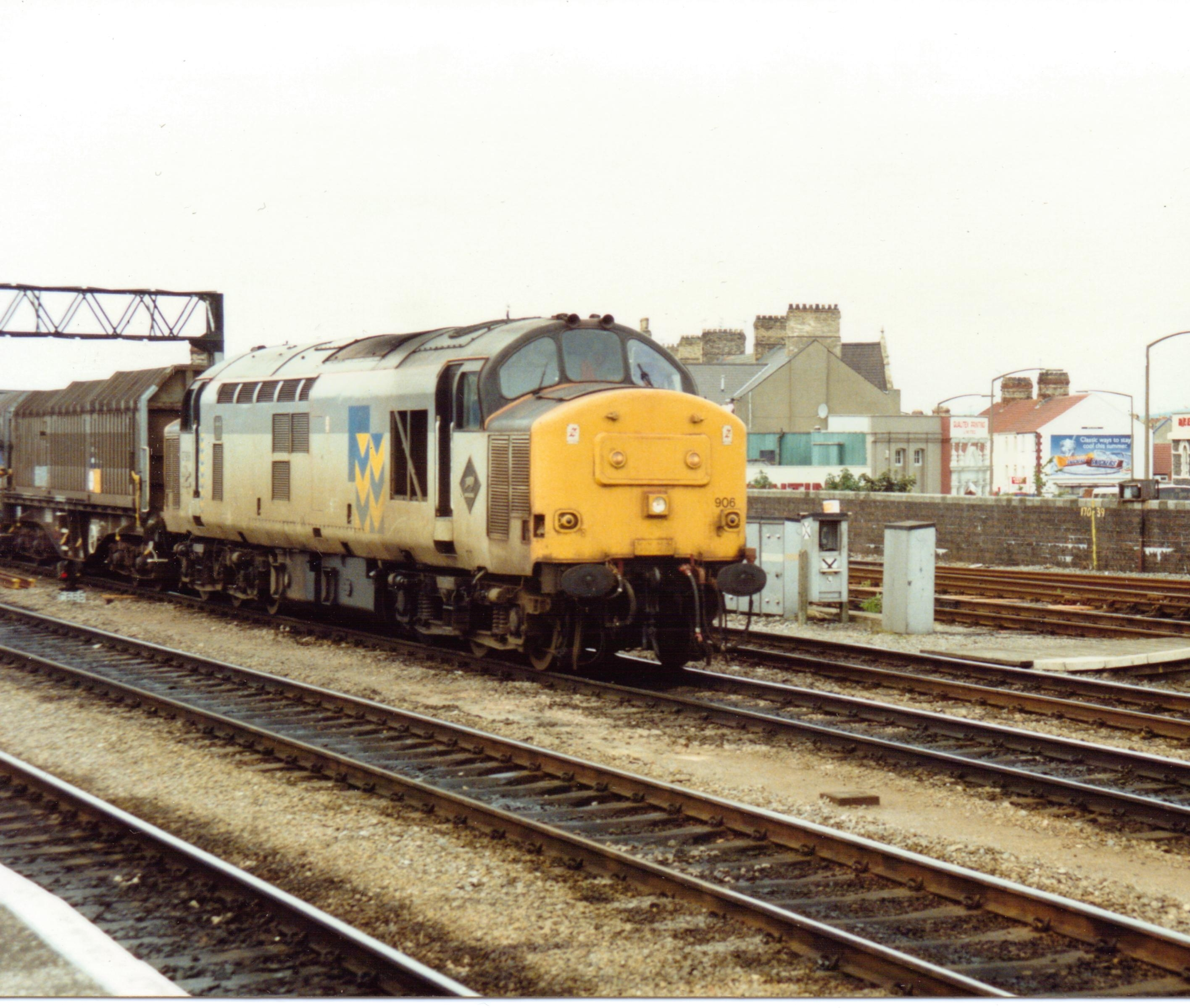 37906 at Cardiff on 22/07/91